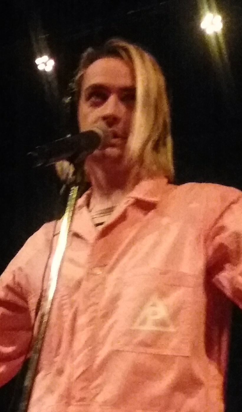 I took this photo of Titanic Sinclair at the Cedar Cultural Center in Minneapolis Minnesota during the Poppy.Computer concert.